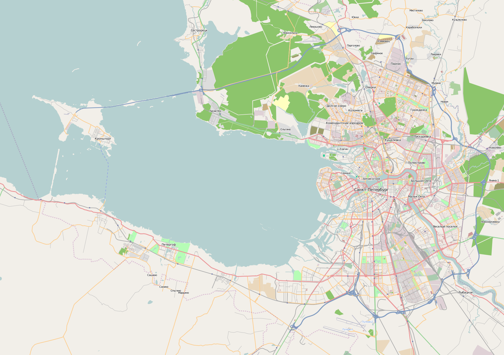 Map of the Kronstadt bay This map may be incomplete, and may contain errors. Don't rely solely on it for navigation.